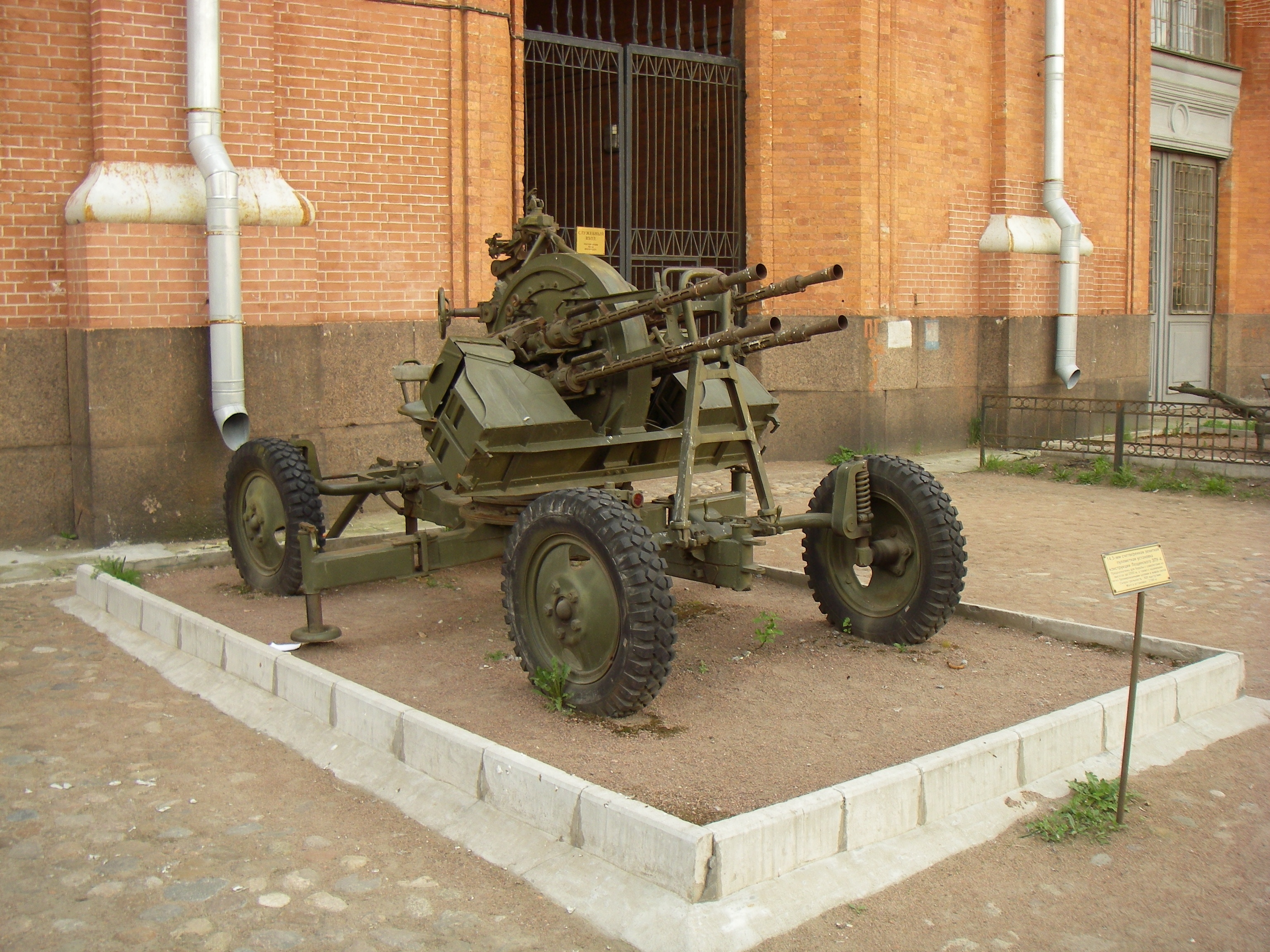 14.5-mm quadruple barreled anti-aircraft gun ZPU-4 in Saint Petersburg Artillery museum